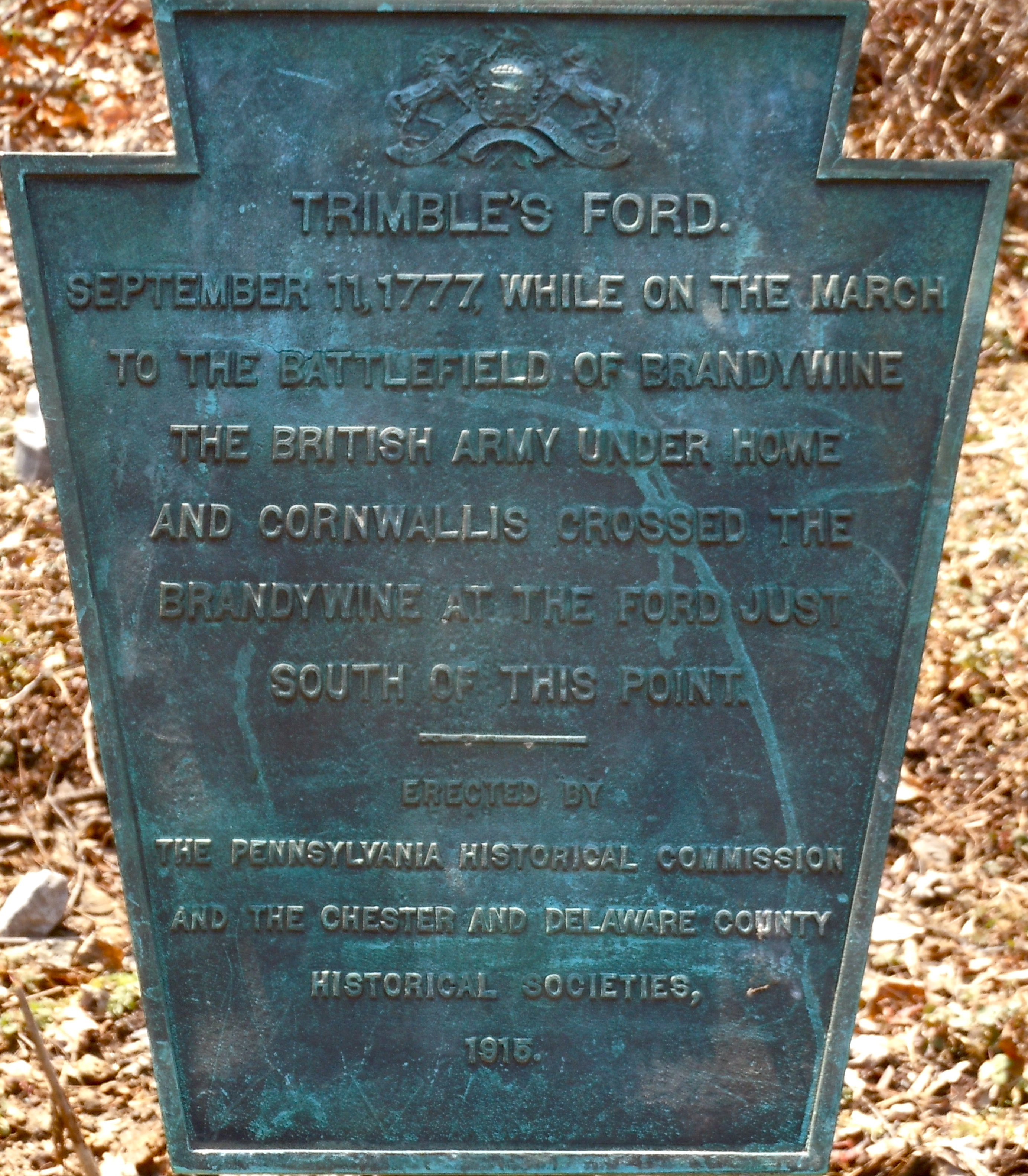 Historical plaque placed by the Pennsylvania Historical Commission (predecessor to PHMC) and the Delaware and Chester County Historical Societies on Sept 1, 1915 (text of plaque out of copyright). Marks site of Trimble's Ford - the 1st ford used by the British troops under Howe and Cornwallis during the Battle of Brandywine, on Sept. 11, 1777. They flanked Washington's troops in the battle by using the 2 fords. Part of the Trimbleville Historic District on the NRHP, in Chester County, PA.